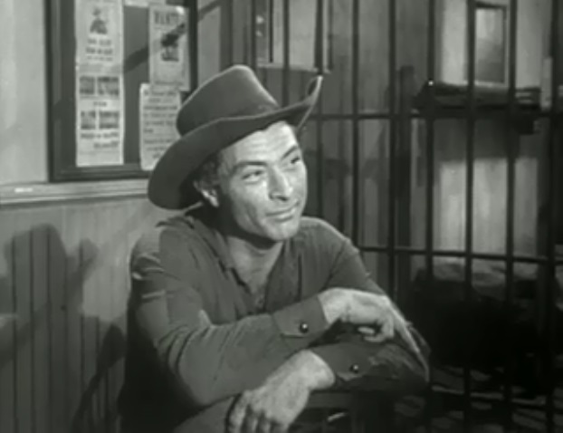 Lee Van Cleef in Raiders of old California